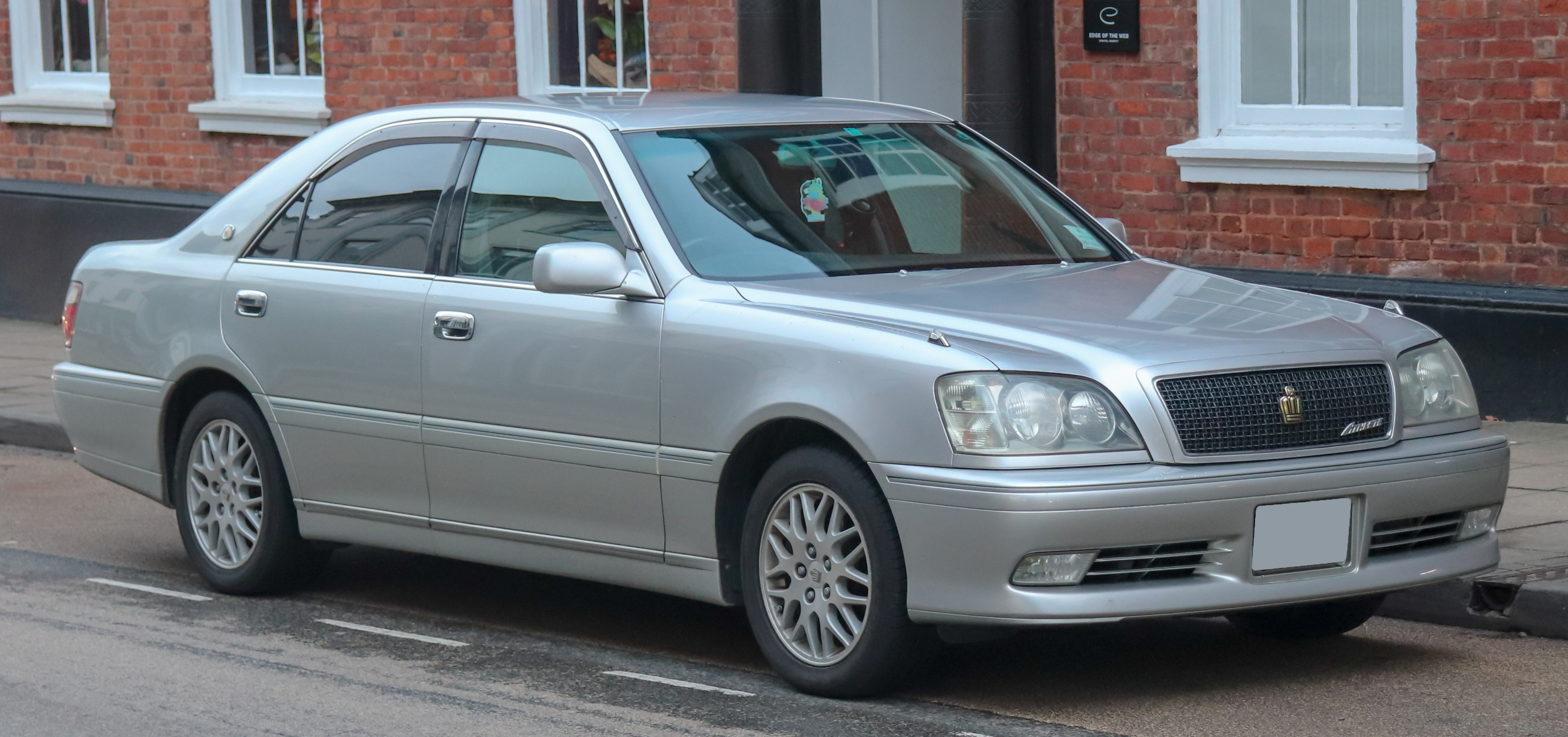 2002 Toyota Crown Athlete V 2.5 Front (Imported in October 2018) Taken in Warwick